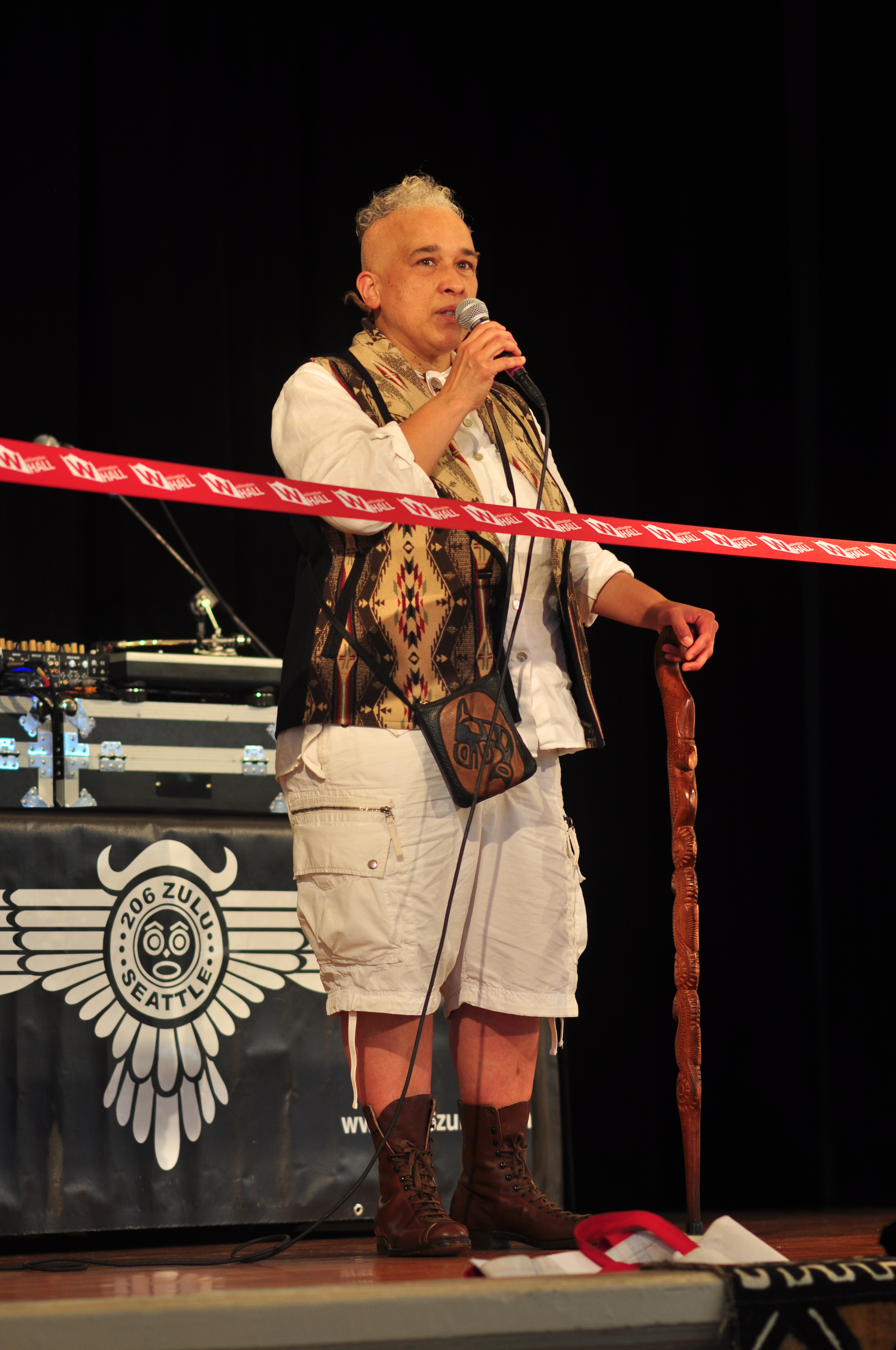 Reopening of Washington Hall, 14th and Fir, Seattle, Washington, June 1, 2016. Anchor organizations of the restored hall are Historic Seattle, 206 Zulu, Hidmo, and Voices Rising. Pictured: Storme Webber of Voices Rising, an organization whose mission "is to create a safe and nurturing community for LGBTQ artists of color".